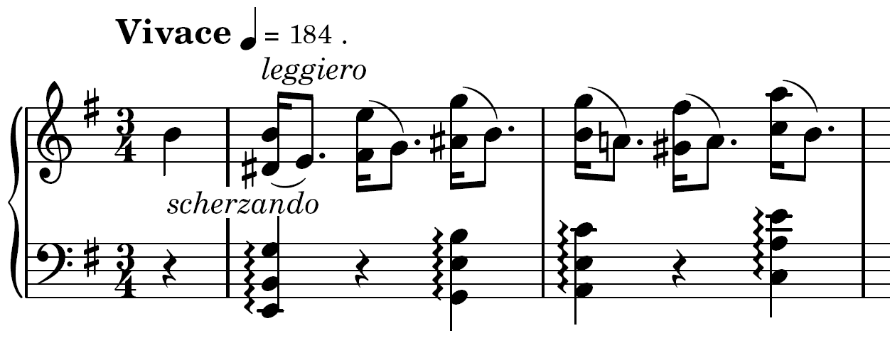 Opening from an Étude (Op.25 No.5) composed by Frédéric Chopin, made in lilypond version 2.12.0